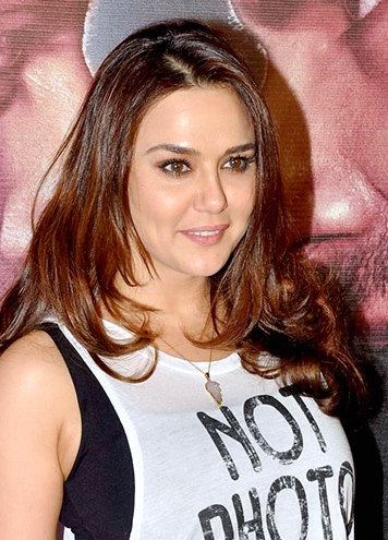 Preity Zinta at success party of Badlapur (2015)